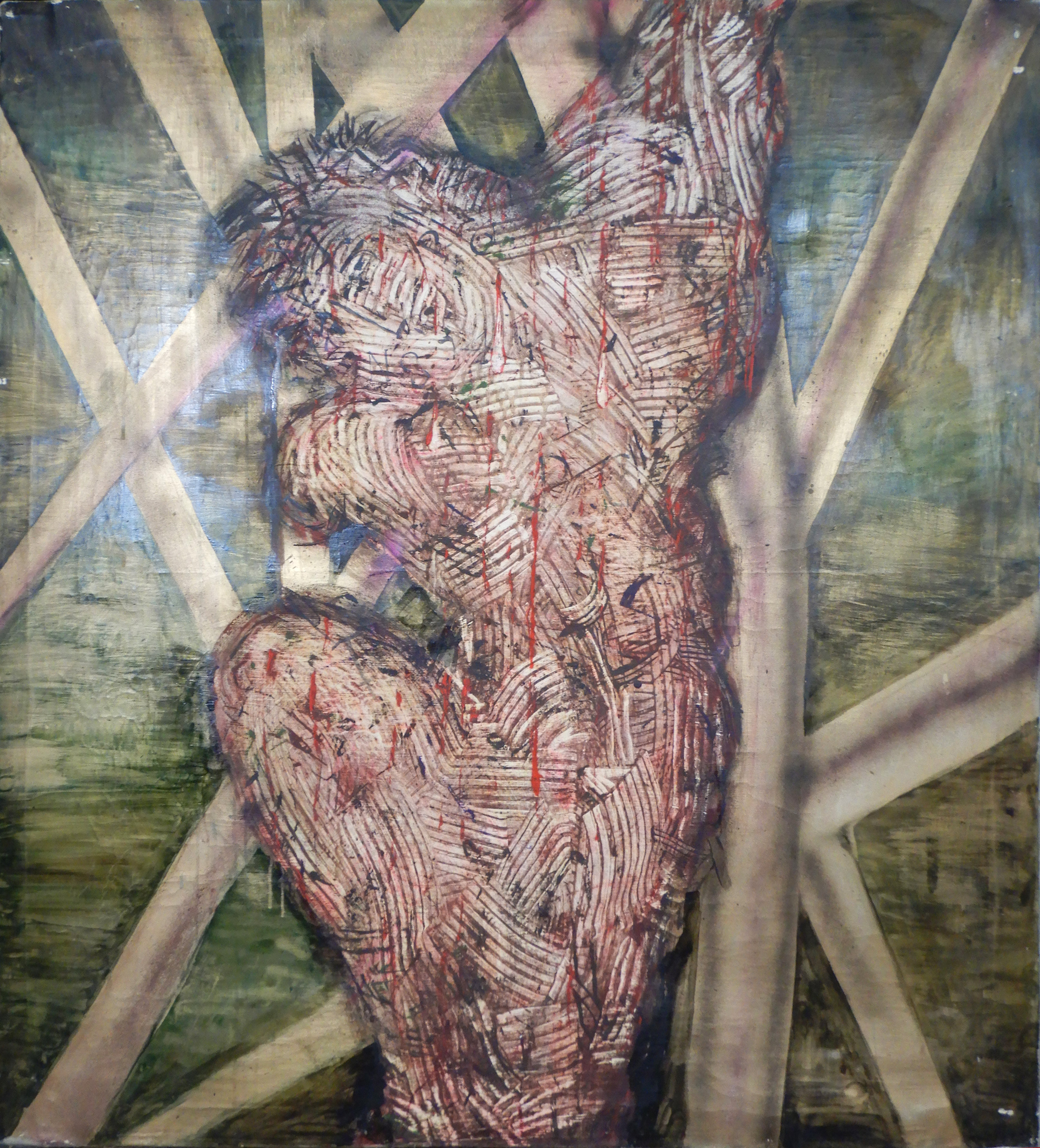 “Die Kreuzigung”, painting of Bernhard Dilling